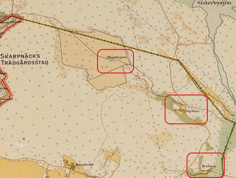 An extract from 1934 års karta över Stockholm med omgivningar